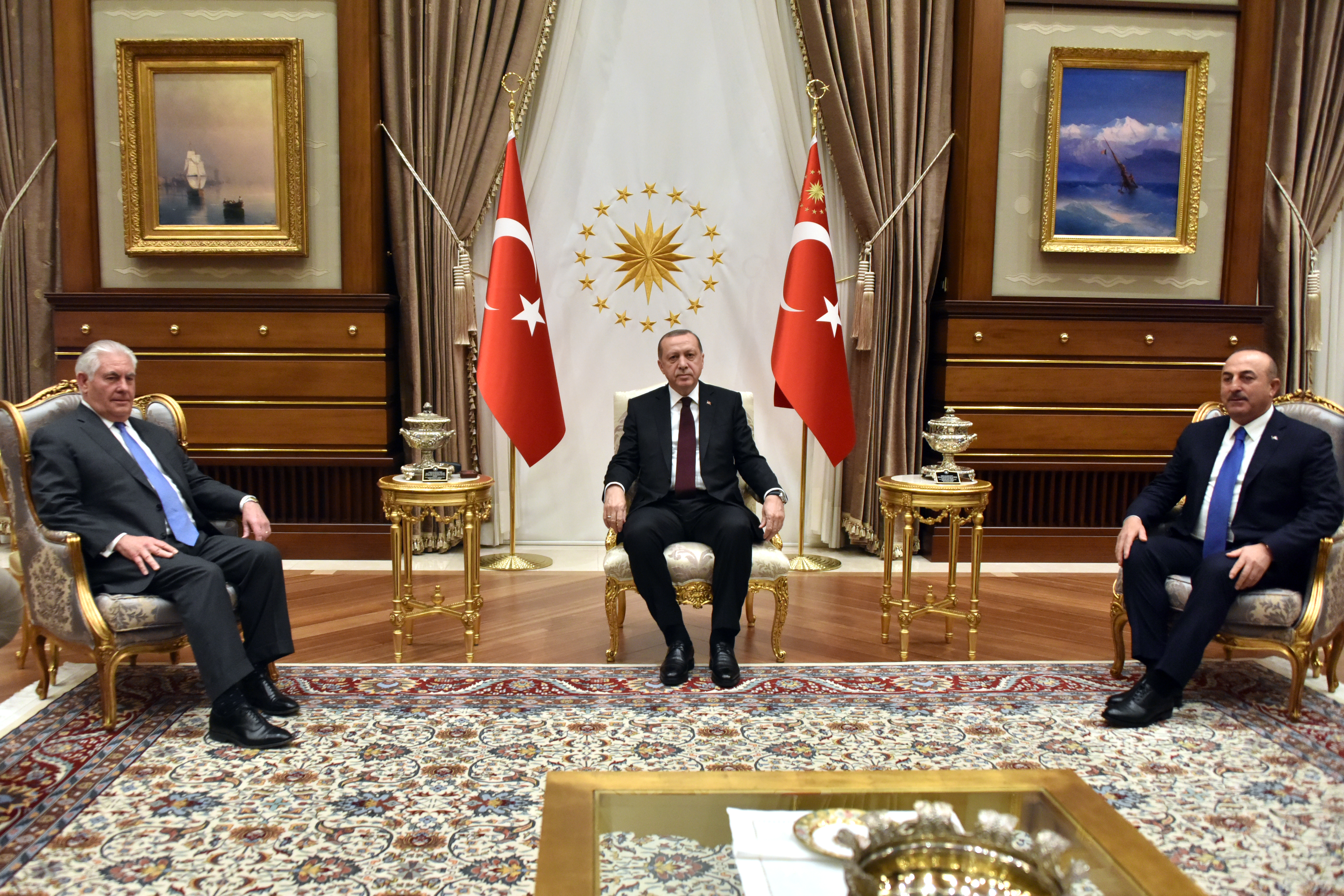 U.S. Secretary of State Rex Tillerson meets with Turkish President Recep Tayyip Erdoğan and Turkish Foreign Minister Mevlüt Çavusoğlu in Ankara, Turkey, on February 16, 2018. [State Department photo/ Public Domain]